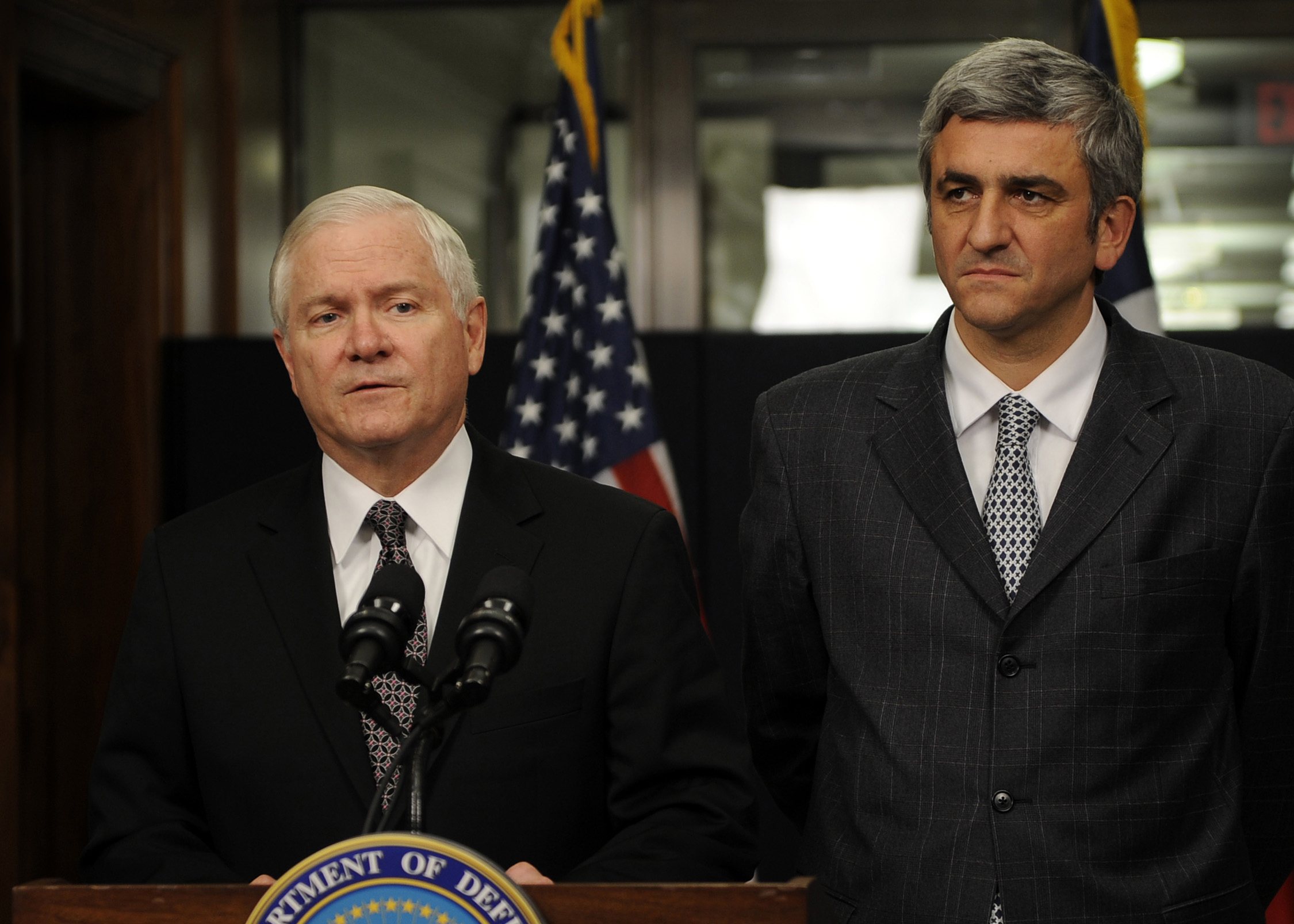 Secretary of Defense Robert M. Gates (left) conducts a joint press conference with French Minister of Defense Herve Morin in the Pentagon on Jan. 31, 2008.